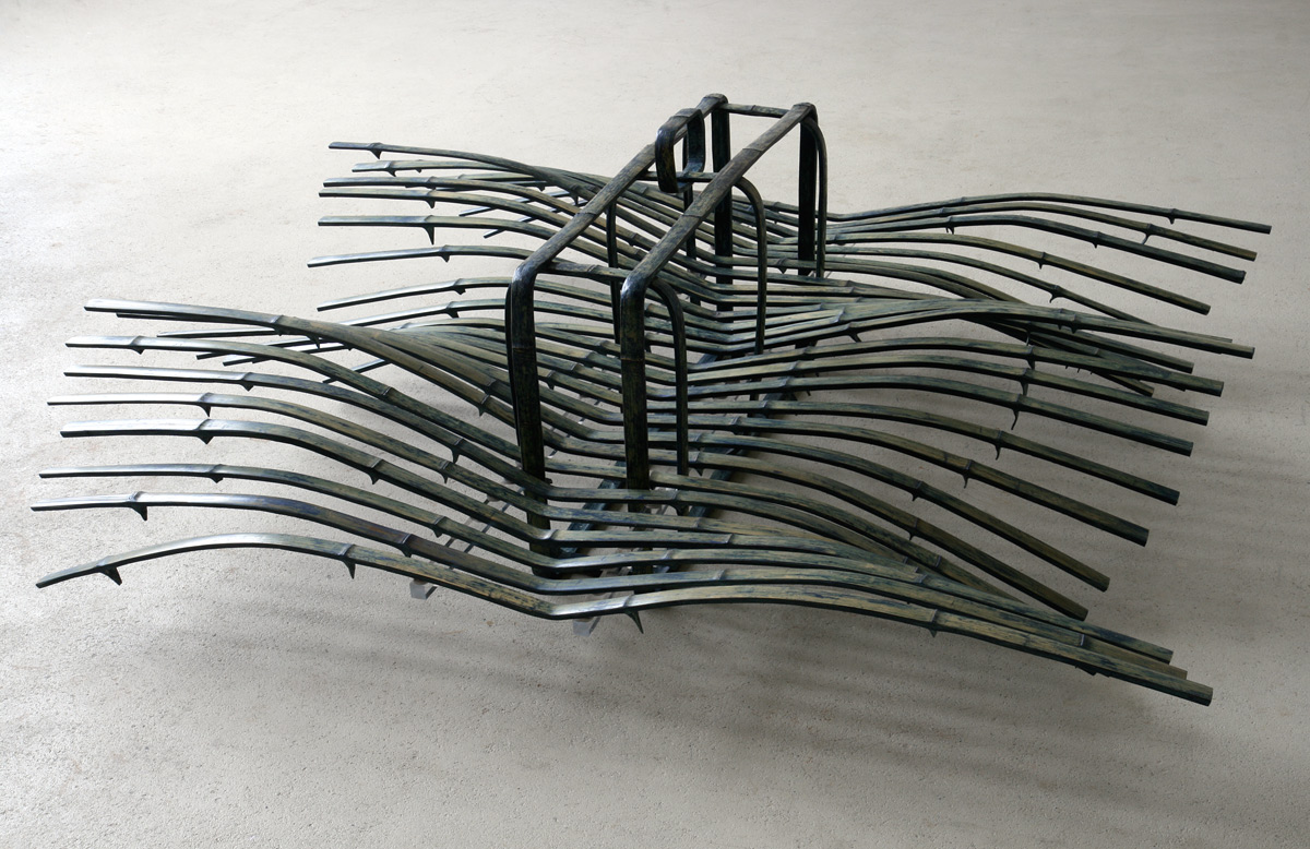 Kirsten Krüger: Voyage (2007), bamboo, acrylic glass, 55 x 165 x 145 cm